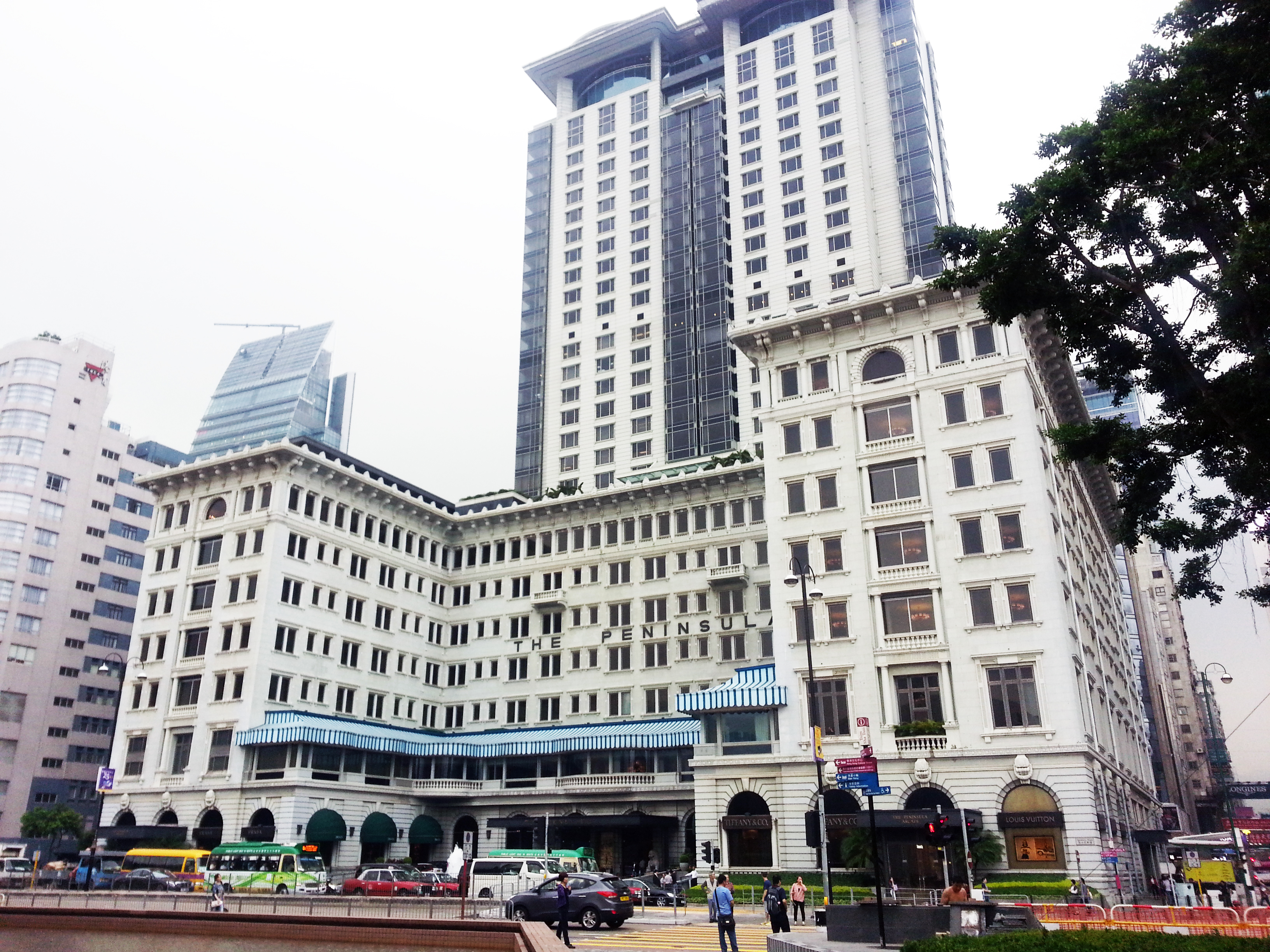 I image of The Peninsula Hotel, Hong Kong.